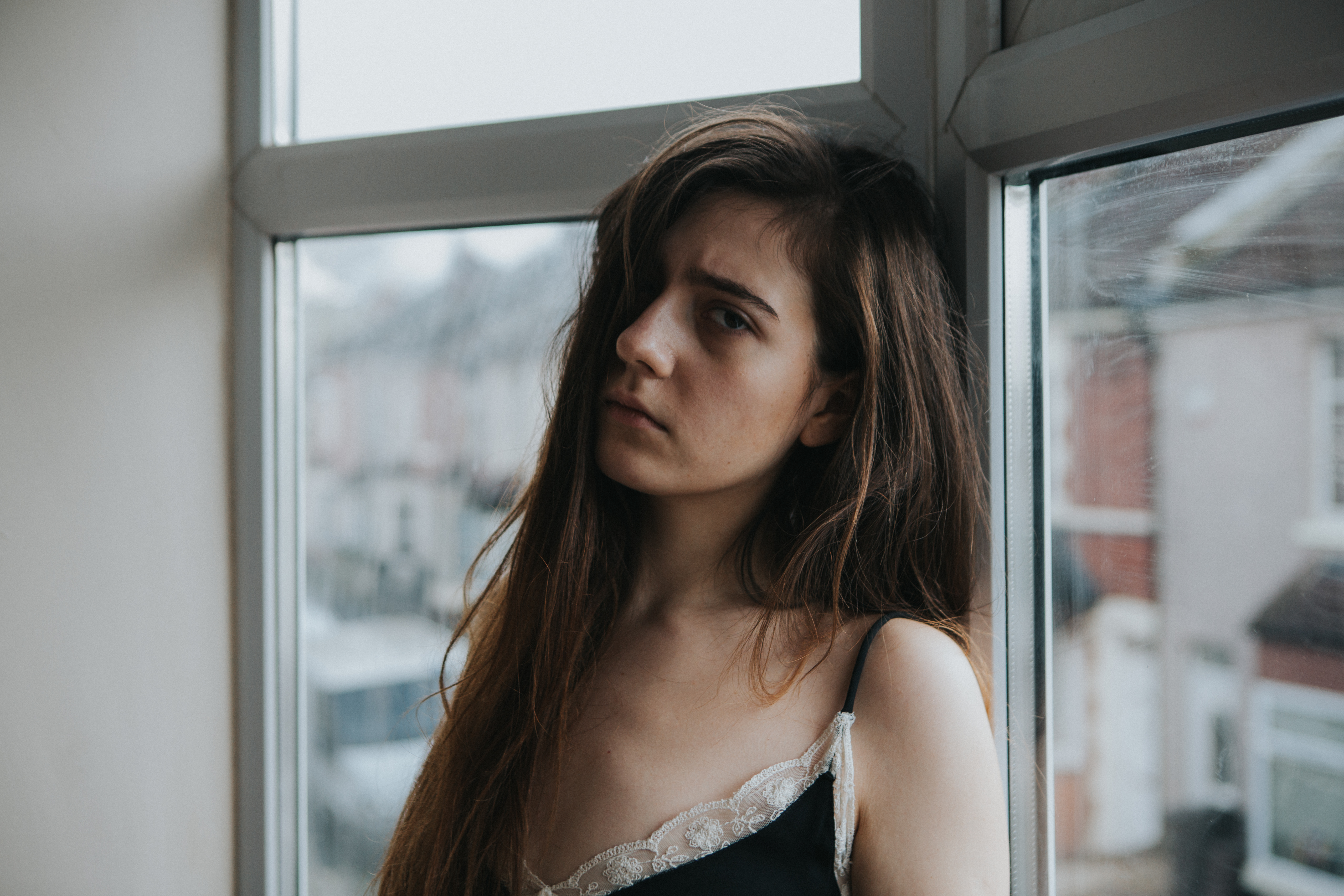 Bristol, United Kingdom